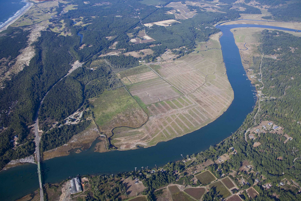 An aerial view of the Coquille River near its mouth on the southern Oregon coast, surrounded by Bandon Marsh National Wildlife Refuge